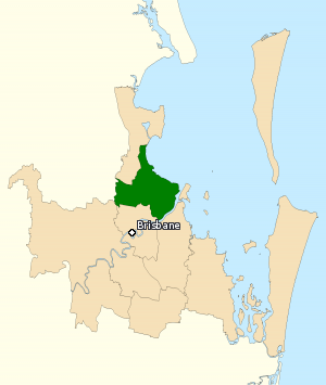 This image incorporates data that is: © Commonwealth of Australia (Australian Electoral Commission) 2009 Division of Lilley 2010